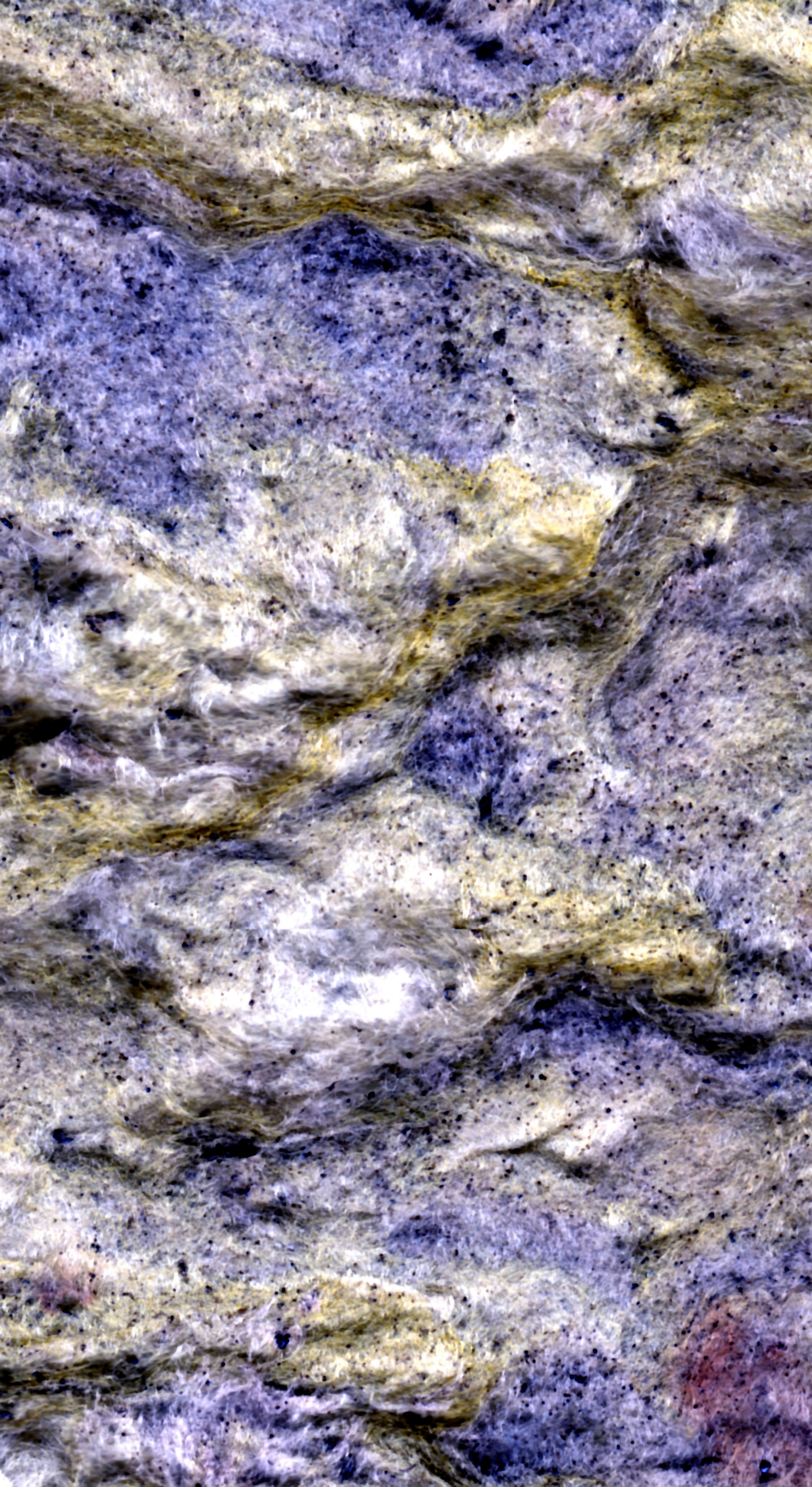 Rockwool Type Roxul RXL 80, scanned in at 1600 dpi, with the grain. Rockwool is a common component in drywall assemblies, spray fireproofing plasters and as packing in firestops. The RXL 80 is an 8lbs/ft³ density board.